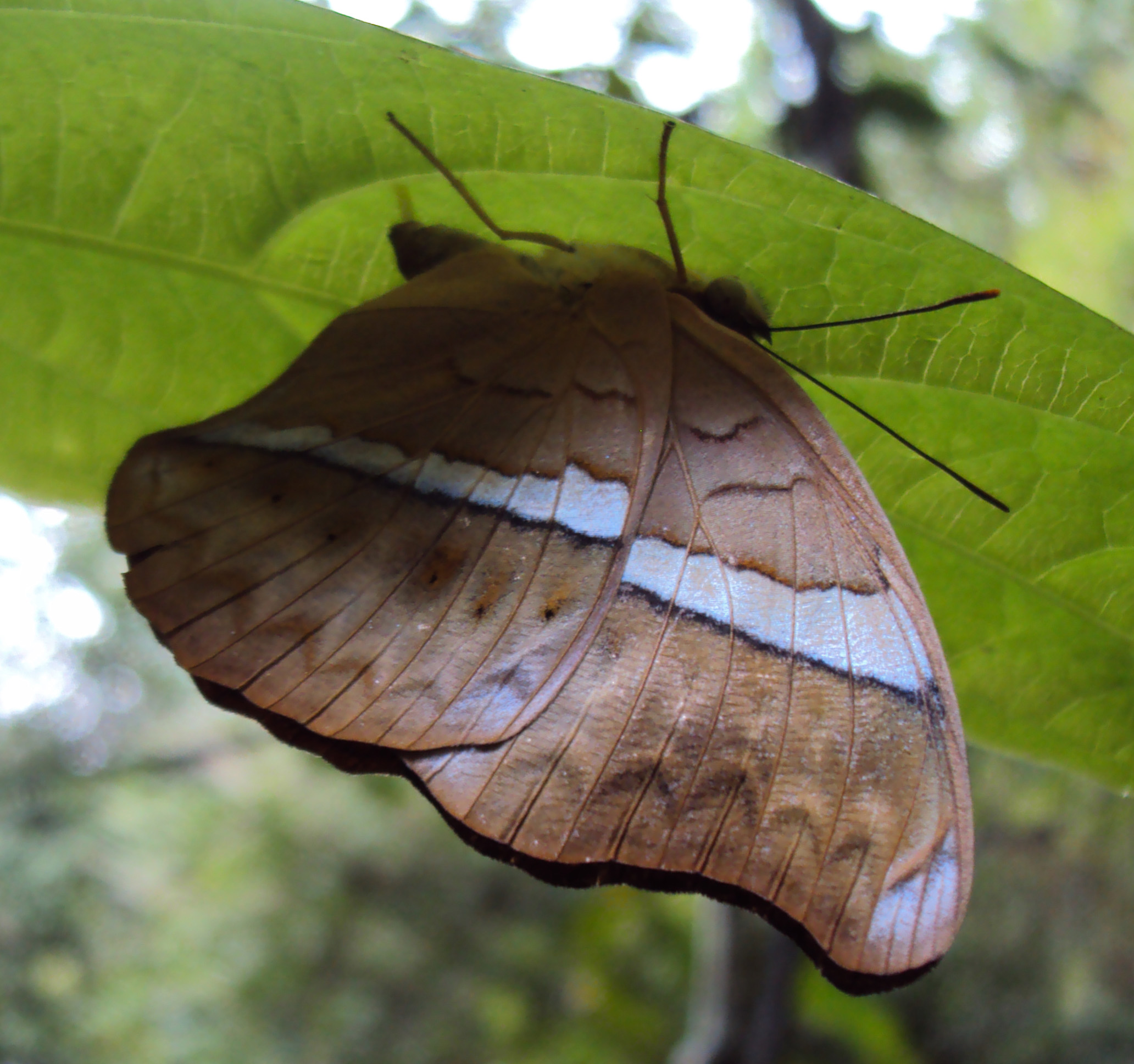 Cirrochroa thais - Tamil Yeoman - laying eggs on the leaves of Hydnocarpus pentandrus